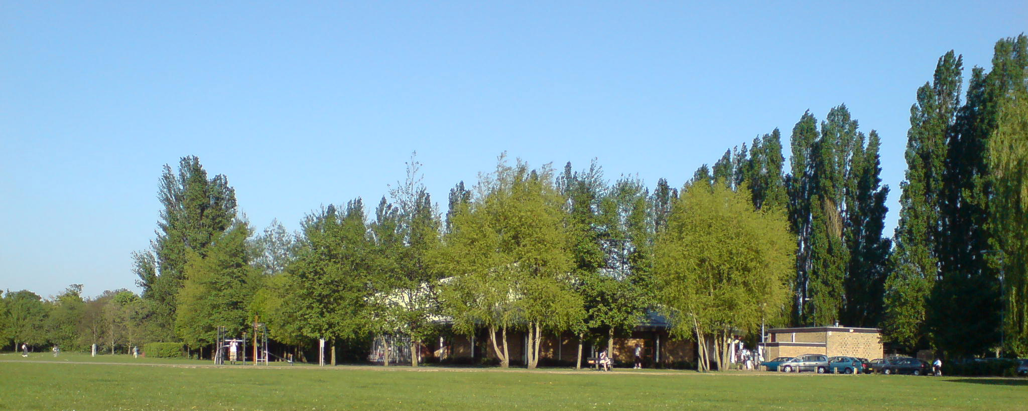 Hartham Pool Gym from Hartham Common, Author: Jamsta